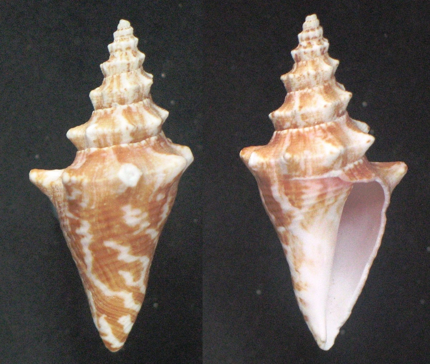 Dorsal (left) and ventral (right) views of a shell of a juvenile individual of Lobatus gigas (Gastropoda: Strombidae), from Gorda Cay, Bahamas. Specimen from Museu de Zoologia da Universidade de São Paulo (MZUSP) collection, Brazil. MZSP 81487.